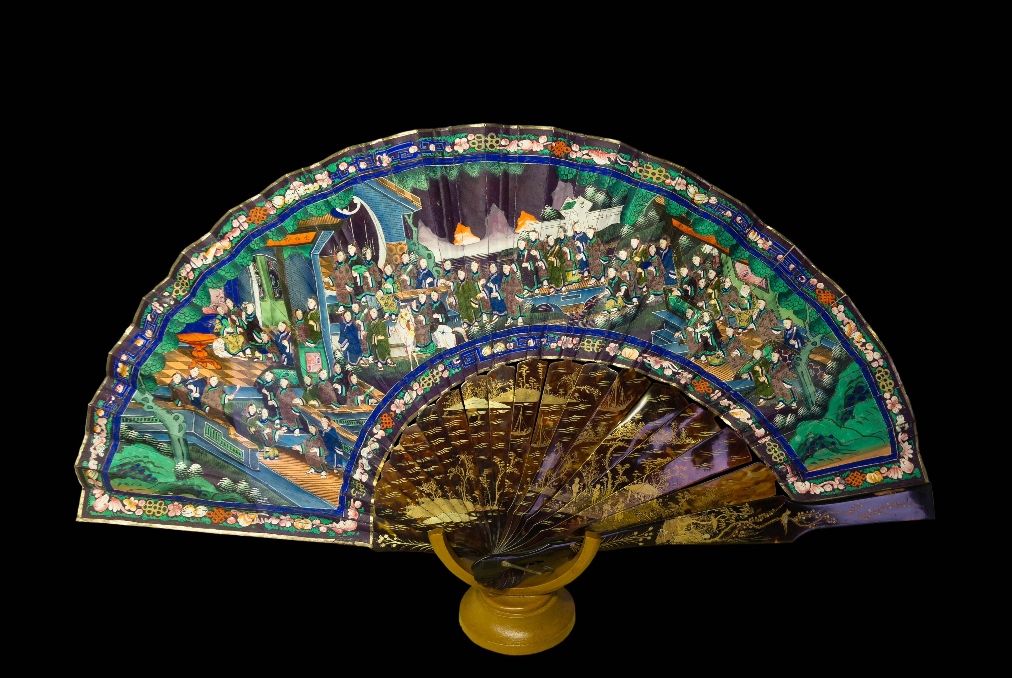 Asymmetrical fan, 18th-century, engraved tortoiseshell ribs and silk, showing a typical chinese scene. 18th-century. Real Alcazar of Seville, Spain.